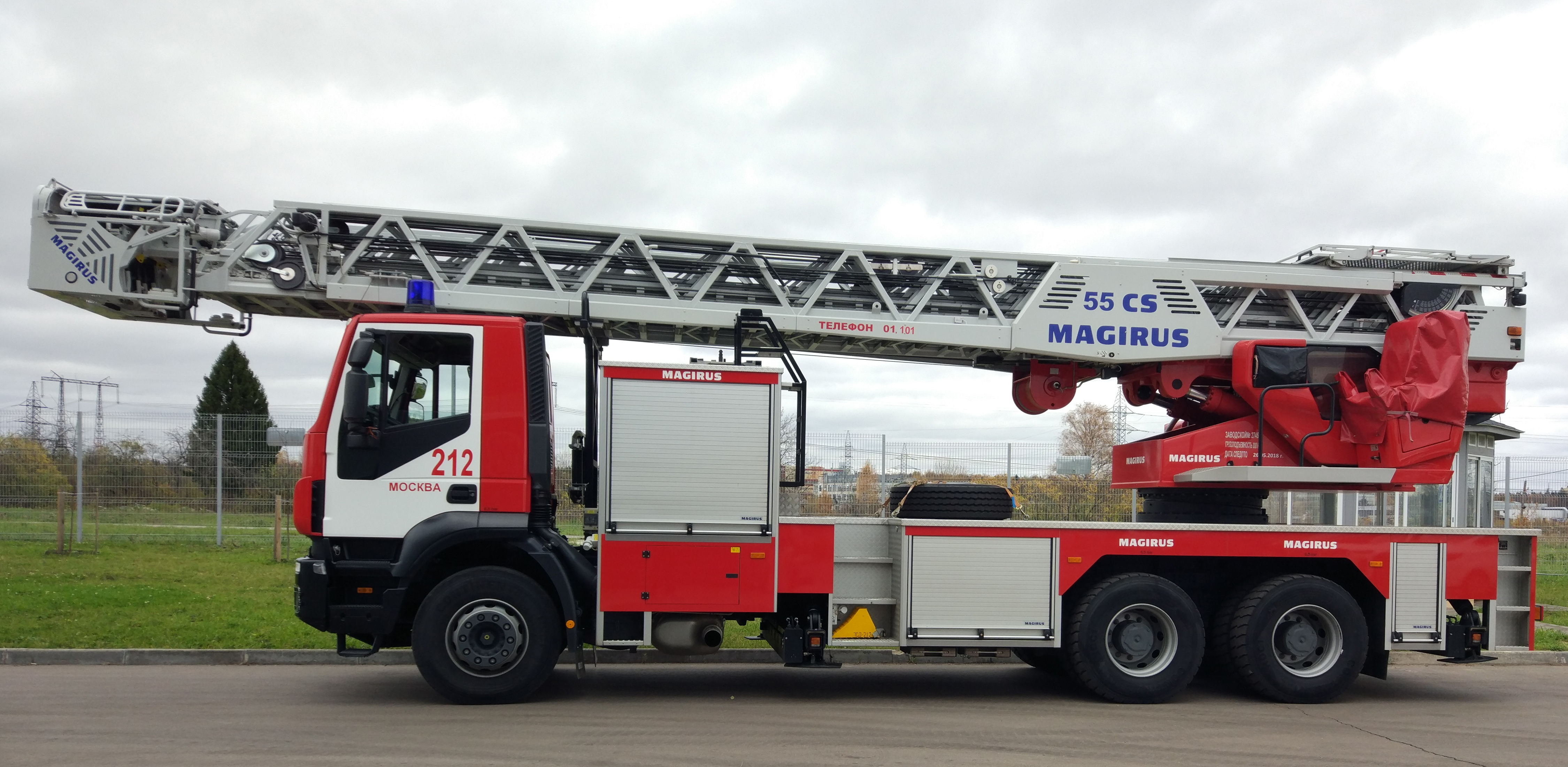 Magirus turntable ladder fire engine